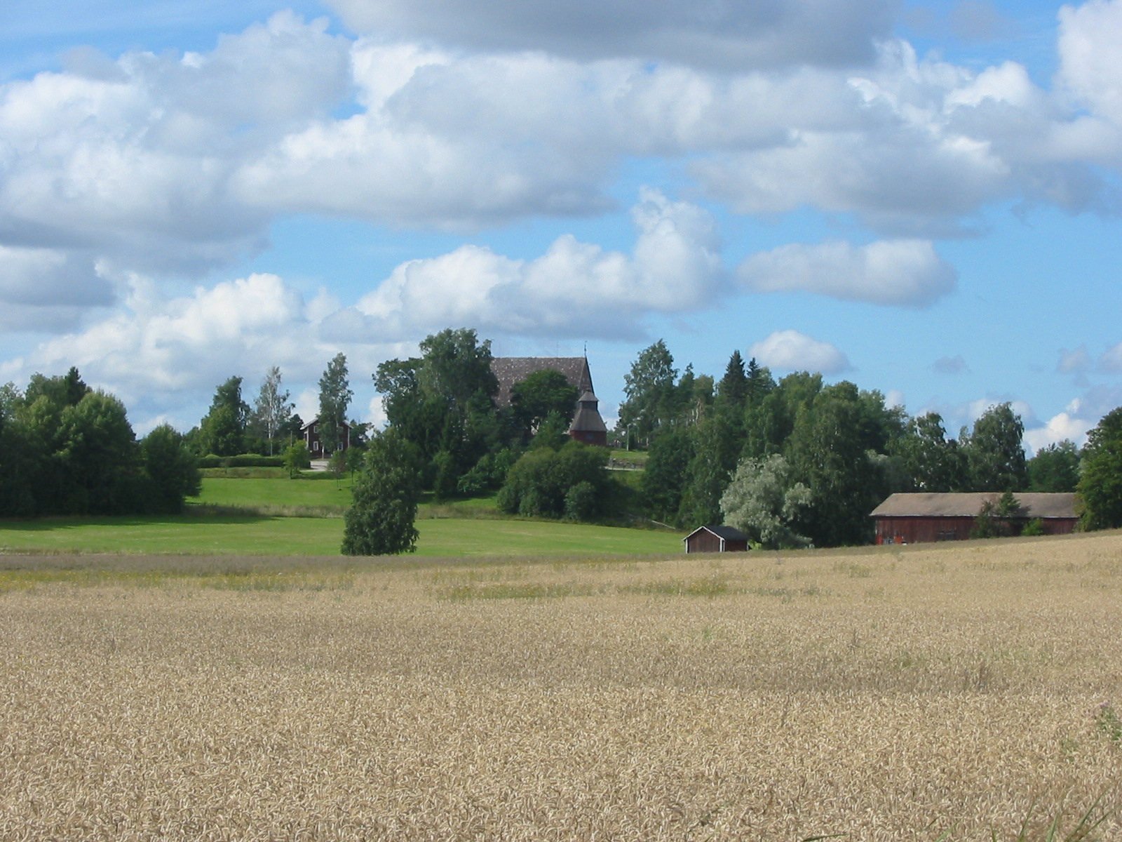 Kirkonkylä in Rusko seen from Vahdontie